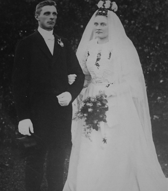 Samuel August and Hanna.